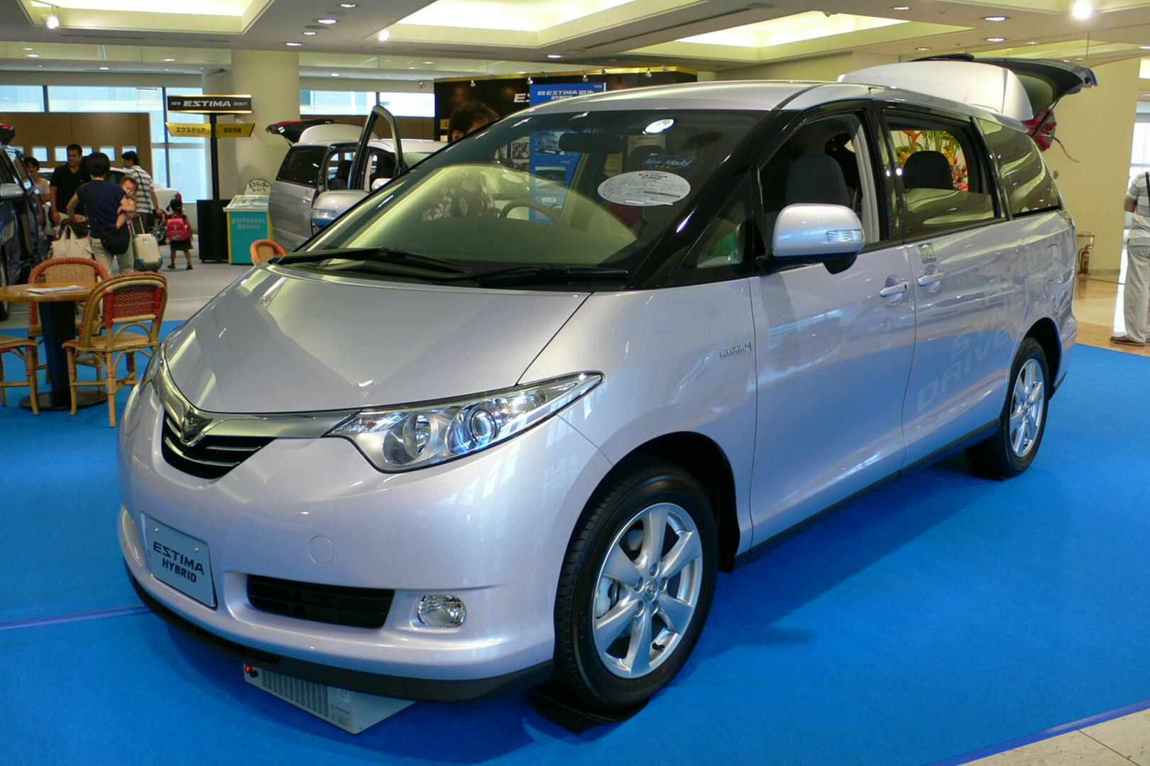 Toyota Estima hybrid (2nd generation) taken in Showroom of Toyota-AMLUX